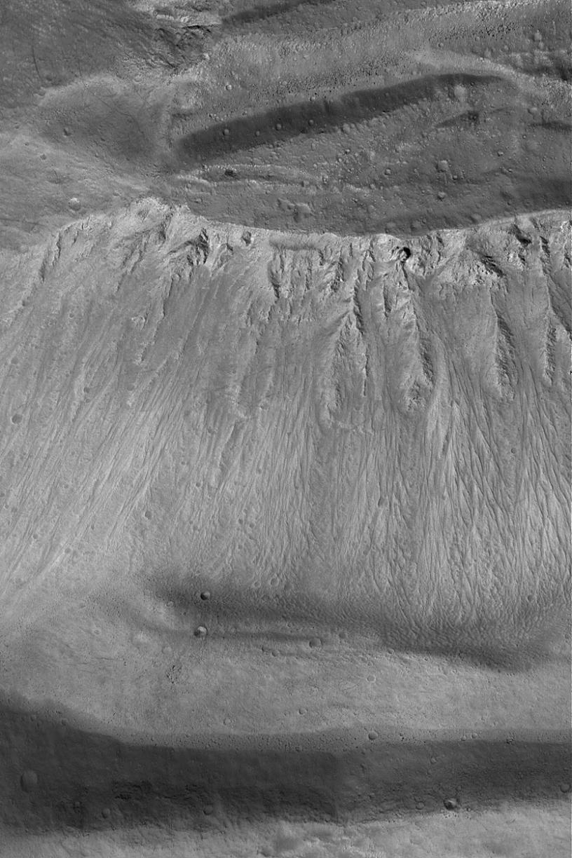 Ascraeus Mons is the northernmost of three volcanos near the equator of the planet Mars. This Mars Global Surveyor Mars Orbiter Camera image shows the wall on one of the calderae at the summit of the large volcano, Ascraeus Mons. A caldera is a large depression formed by collapse after magma in a volcano is erupted from or withdrawn to a greater depth. After collapse, the wall of this caldera was further modified by downslope movement of debris and it was pelted by small meteors to form a scattering of small craters. This image is located near 11.6°N, 104.6°W, and covers an area about 3 km (1.9 mi) across. The picture is illuminated by sunlight from the lower left.